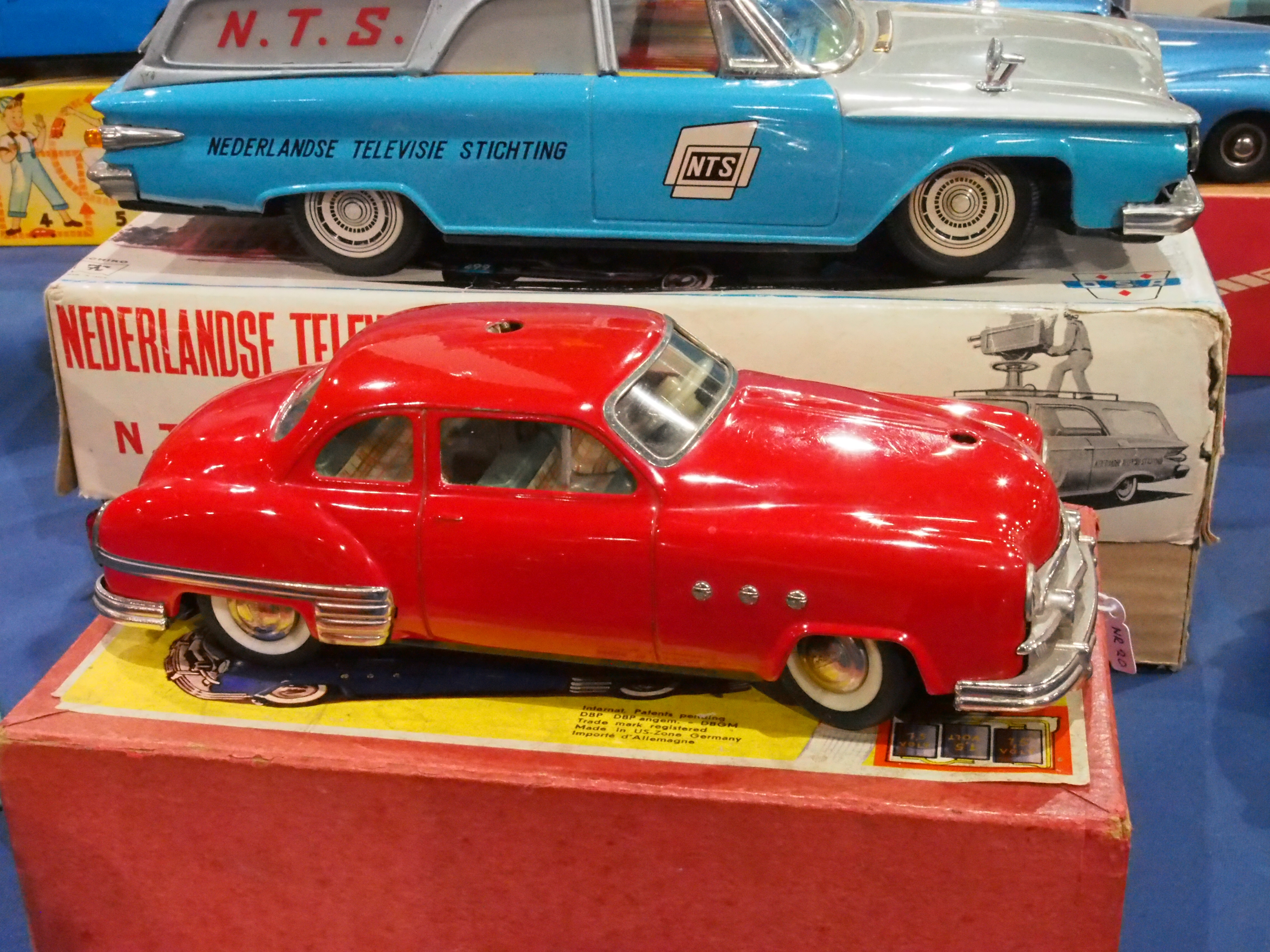 Litho tin toy red Buick.